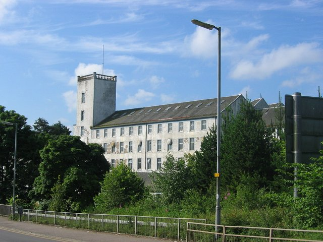 Patons Mill, Johnstone. Looking a bit tatty in 2005, and a lot more tatty in 2009. By 2009 the building was badly vandalised and losing its roof.